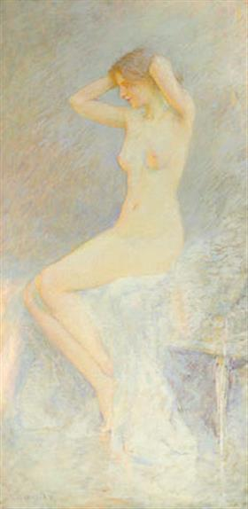 Work by Robert Lewis Reid